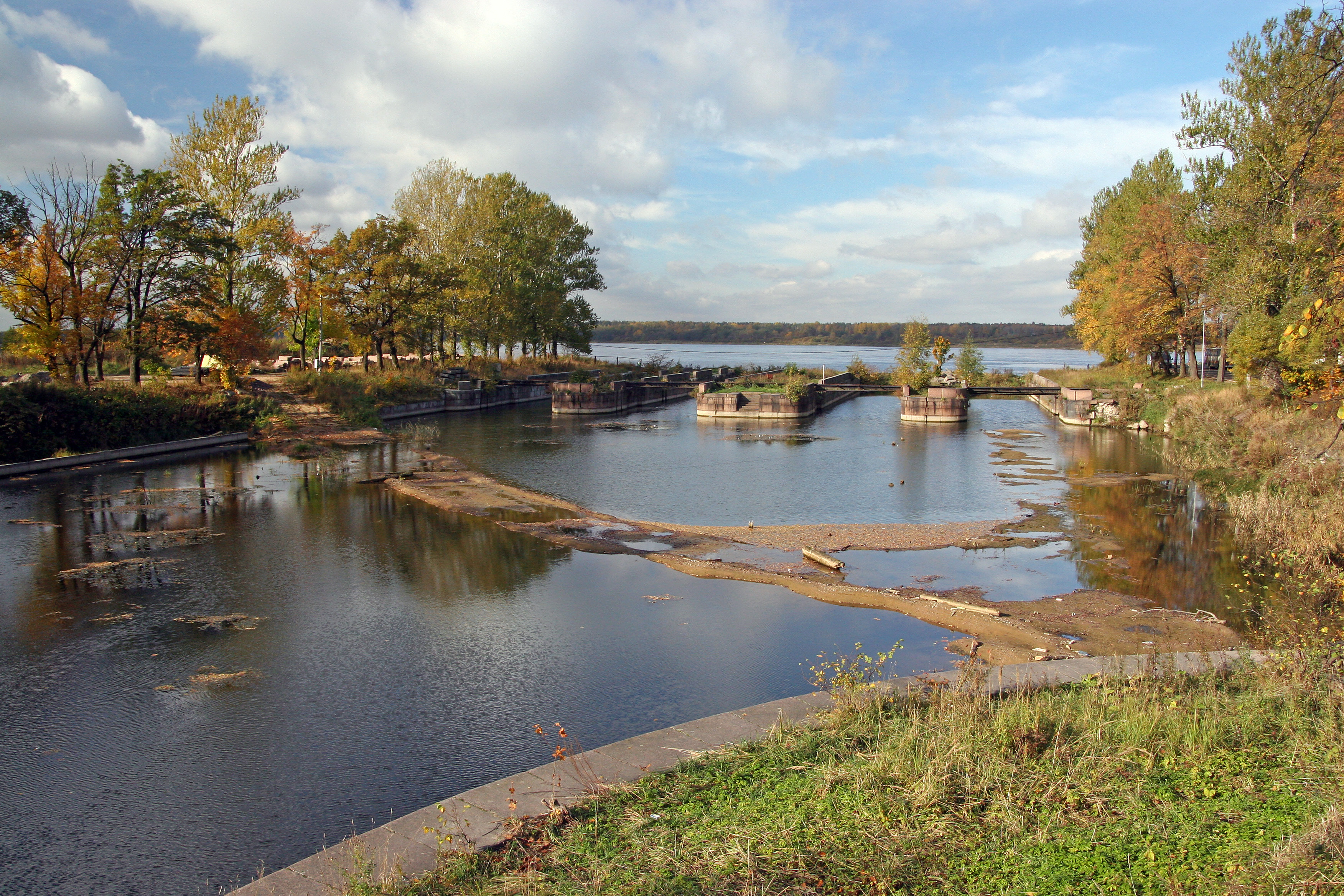 Town of Shlisselburg, Russia: 4-chamber sluice of 1736 with basin, mouth of the old Ladoga canal into the river Neva. In the basin are traces by begun and discontinuous renovation works to be seen.